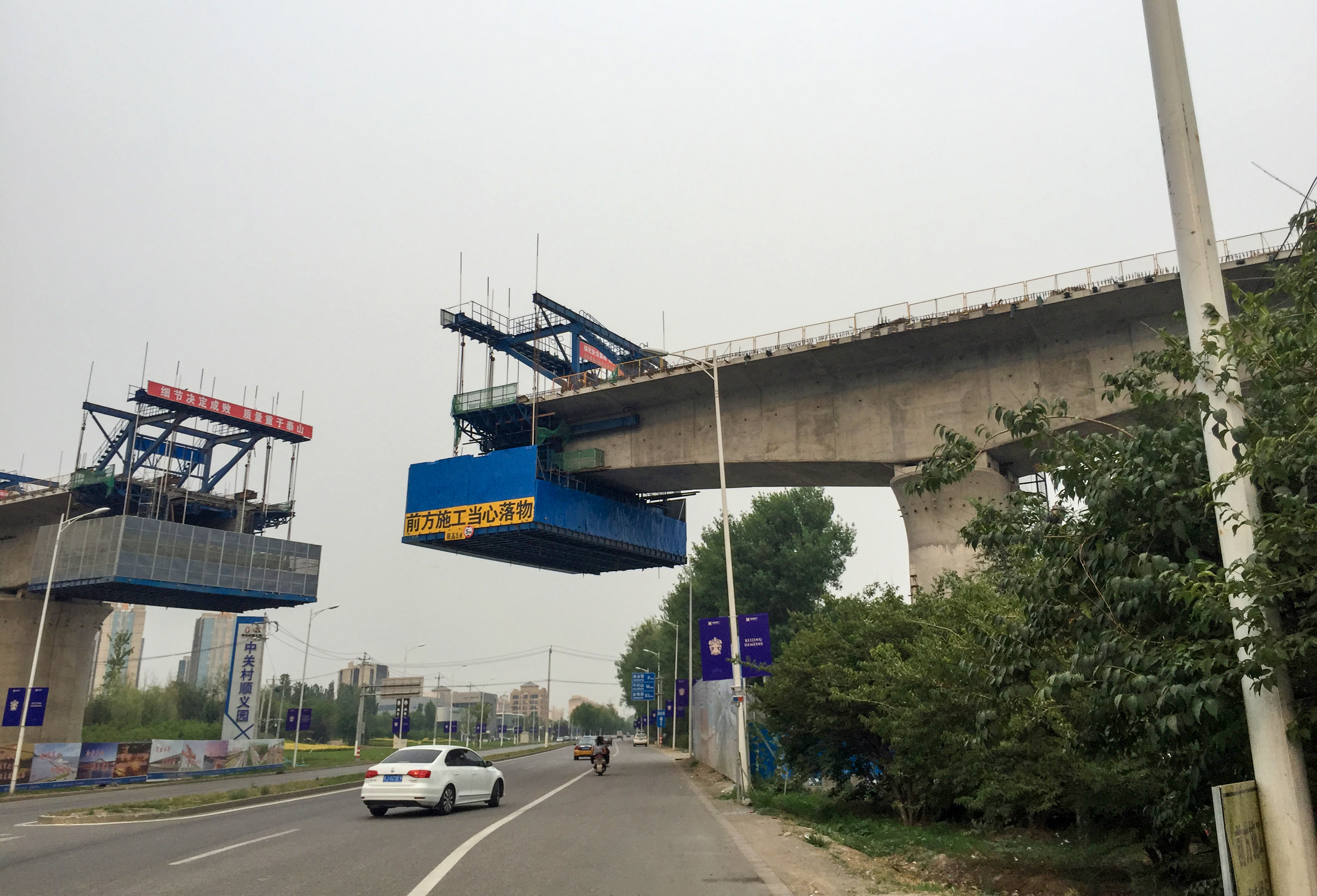 Didn't find Shunyixi Railway Station...